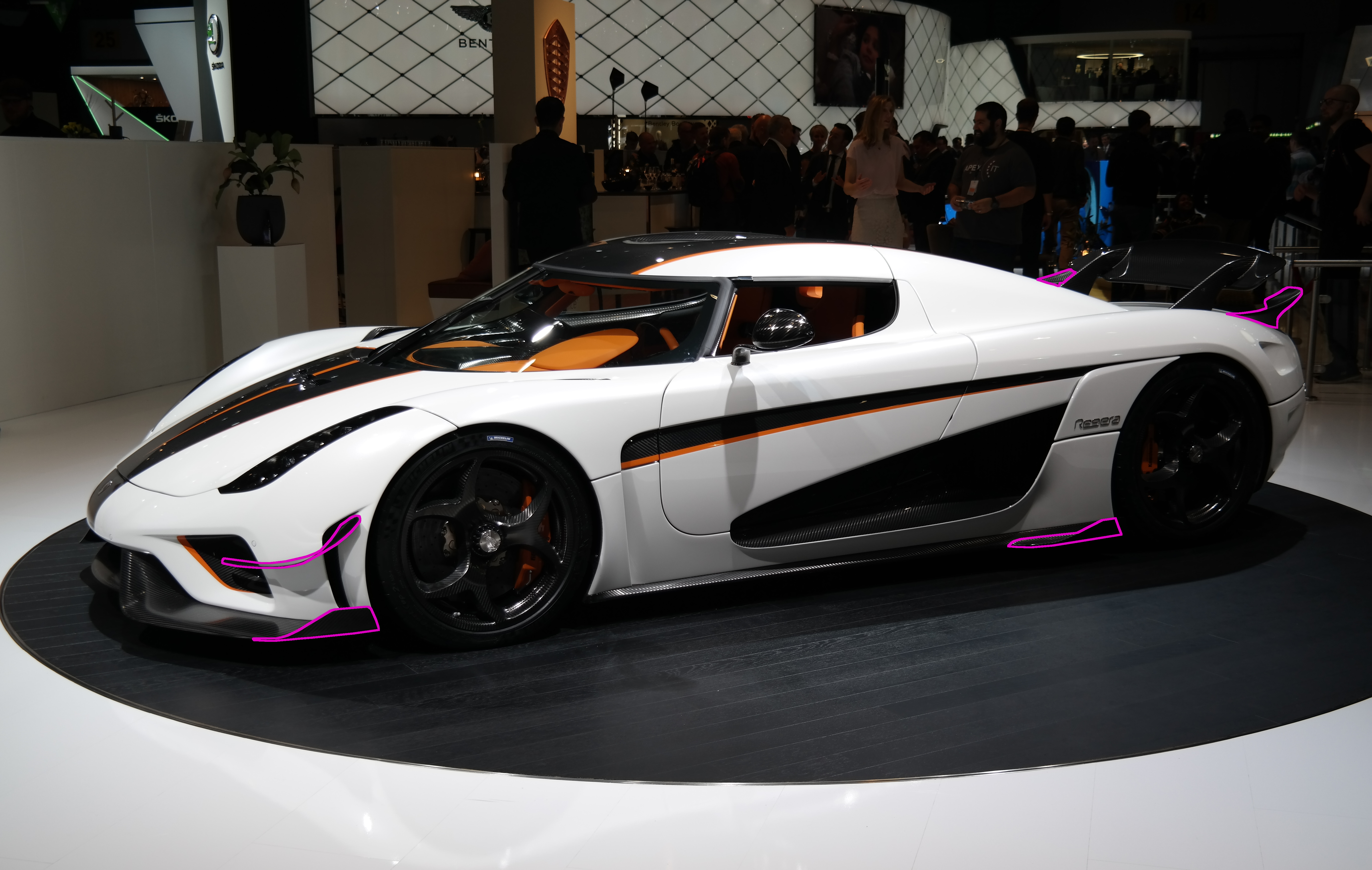 Highlighted aero additions of the Ghost package